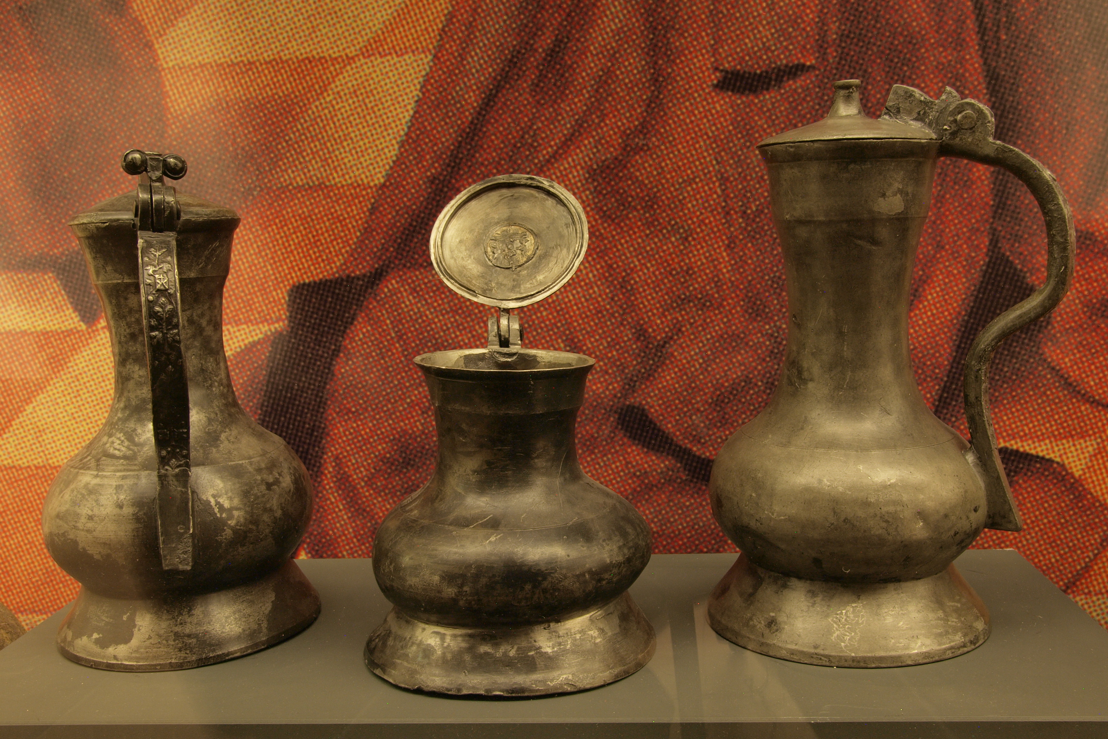 Three tin cans, so called Hansekannen (German Language).